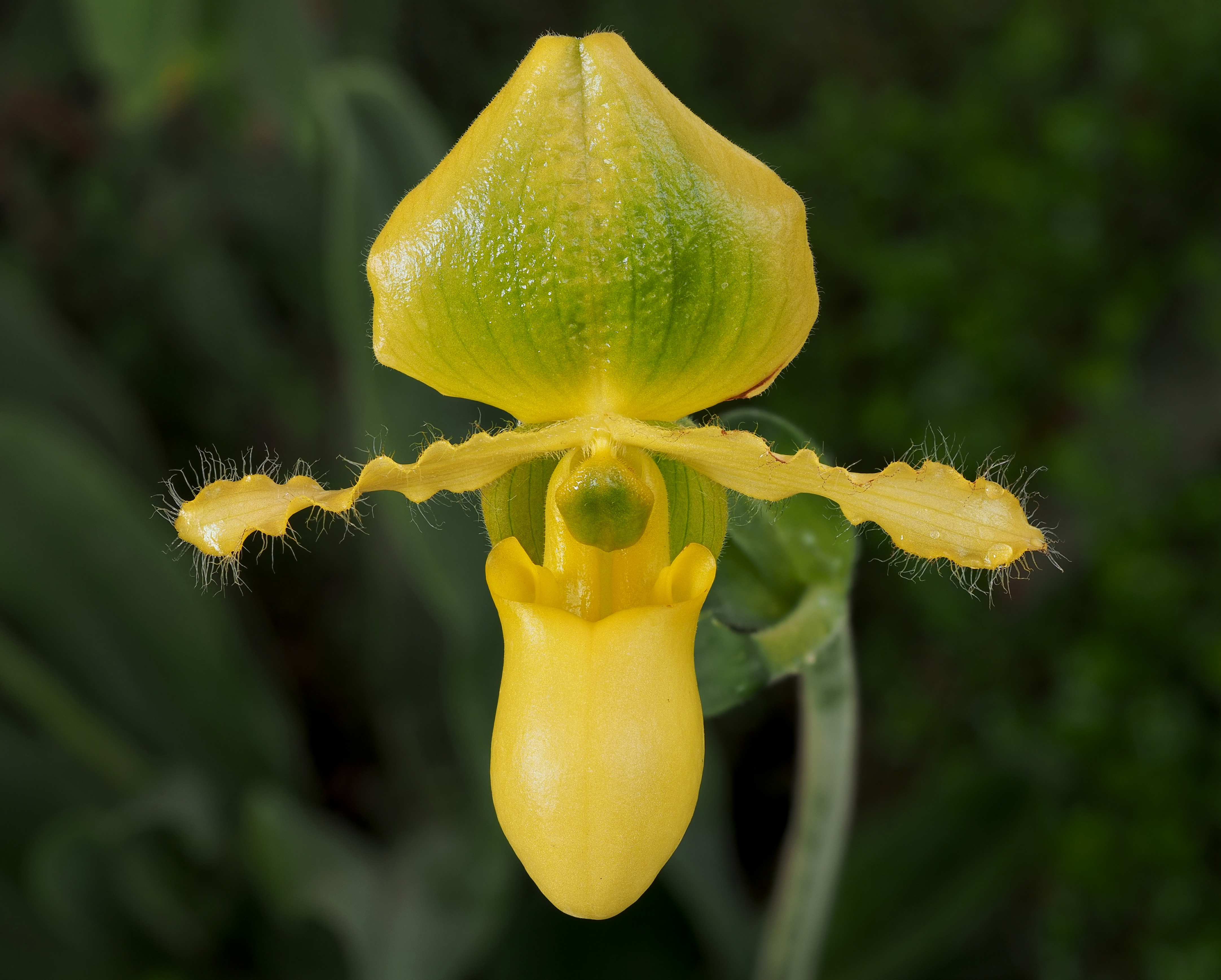 Paphiopedilum Pinocchio (yellow, size 11–12 cm). Parents formula: Paphiopedilum primulinum × Paphiopedilum glaucophyllum. Botanical Garden in Ljubljana, Slovenia This photograph was taken with an Olympus E-M1